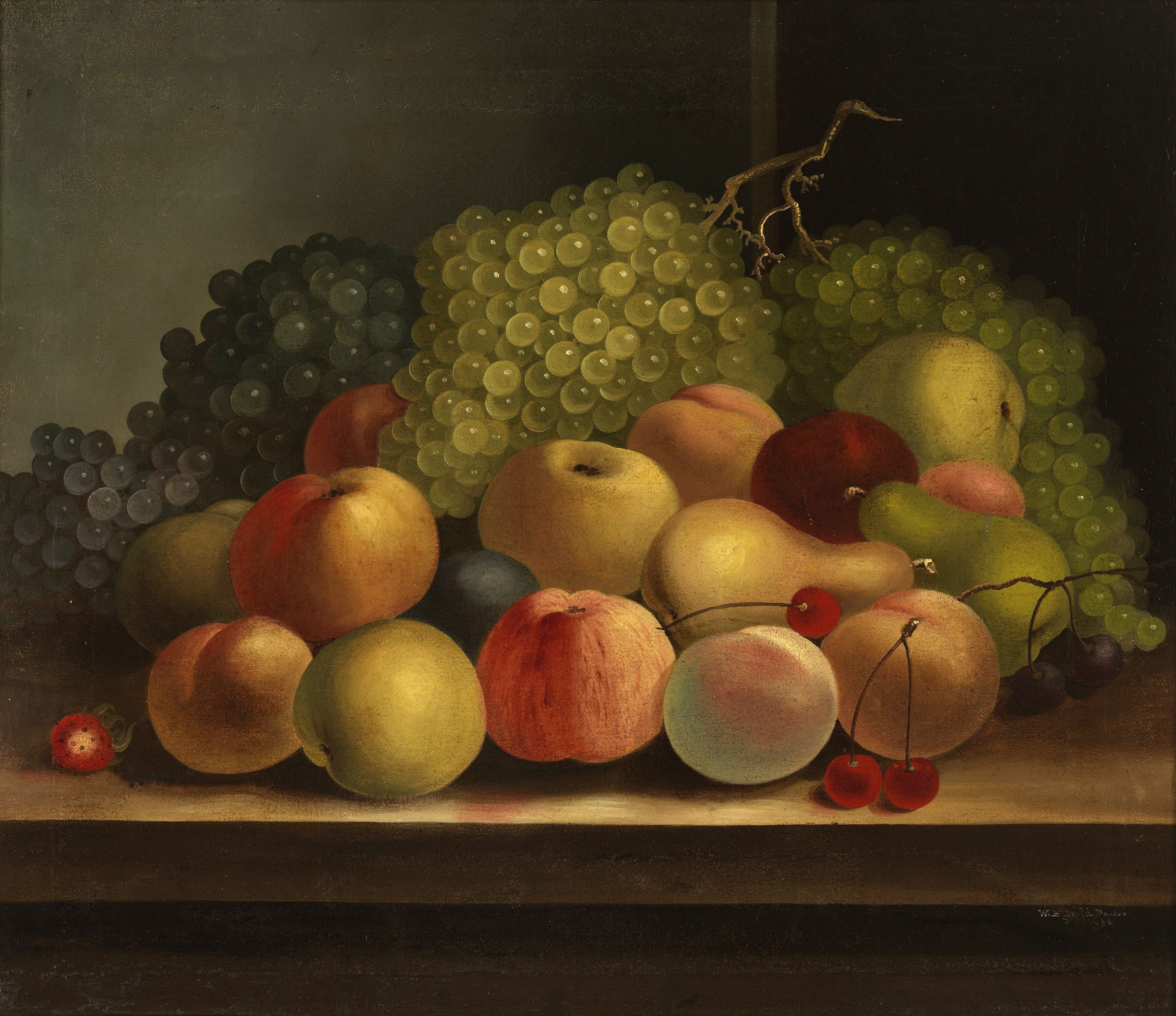 Still life, fruit oil on canvas painting by Van Diemonian (Tasmanian) artist and convict William Buelow Gould (1801 - 1853). Painted in 1832 either while Gould was working as house servant for the colonial surgeon Dr James Scott, or after being sent to Macquarie Harbour Penal Station and working as house servant for Dr William de Little. Given the materials used, it was probably done for Scott in Hobart. It is signed in the lower left corner "W.B.Gould, Painter, 1832". Actual size 385 x 470 mm.